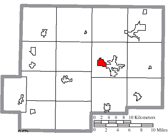 Map of the municipal and township boundaries of Putnam County, Ohio, United States, as of the 2000 census, with the location of the village of Glandorf highlighted. Township borders are shown only in unincorporated areas in order to differentiate incorporated and unincorporated areas more clearly.